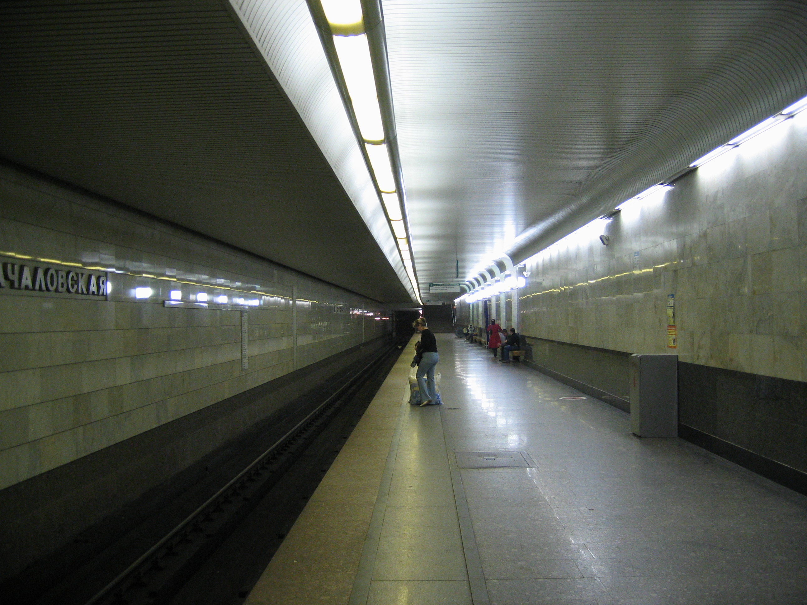 Ulitsa Starokachalovskaya station of Moscow Metro